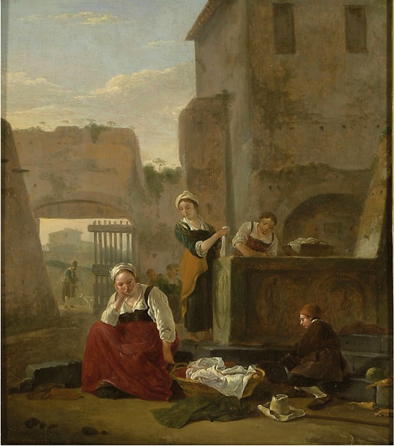 Thomas Wijck, Italian Street Scene, oil on panel; 32 x 26 cm, Ashmolean Museum